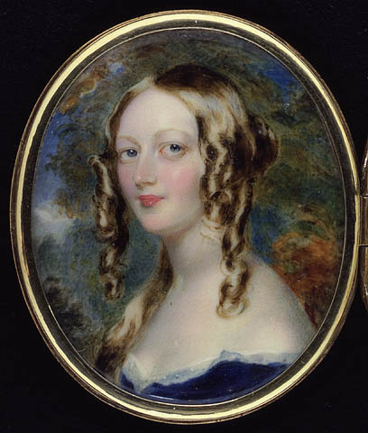 Credit / Mention de source : Library and Archives Canada, C-131638 / Bibliothèque et Archives Canada, C-131638 Description / Descriptions : Katherine Jane Balfour (ca. 1814-1864) the daughter of Lieutenant-General Balfour of Balbirnie, Fifeshire, Scotland, married the only son of Edward Ellice on July 15, 1834. The Ellice household of the seigneury of Beauharnois was taken over by rebels on November 4, 1838, and Katherine was held captive for six days. An artist herself, she managed to sketch (as her diary describes them) the "picturesque ruffians" from a window, and a watercolour depicting this event is in the collection of the National Archives. She gave this (the most successful of the three miniature Ellice portraits) to her husband three years after their return to England, the inscribed date of 14 July 1841 being the eve of their wedding anniversary. / Katherine Jane Balfour (v. 1814-1864), la fille du lieutenant-général Balfour de Balbirnie, Fifeshire, Écosse, épousa le fils unique d'Edward Ellice le 15 juillet 1834. La maison Ellice de la seigneurie de Beauharnois fut prise par les rebelles le 4 novembre 1838, et Katherine fut gardée captive pendant six jours. Elle-même artiste, elle réussit à dessiner, à partir d'une fenêtre, les « ruffians pittoresques » (comme son journal les décrit); une aquarelle représentant cet incident est conservée dans la collection des Archives nationales. Elle donna cette miniature (la plus réussie des trois miniatures de la famille Ellice) à son mari trois ans après leur retour en Angleterre; la date inscrite est celle du 14 juillet 1841, soit la veille de leur anniversaire de mariage.